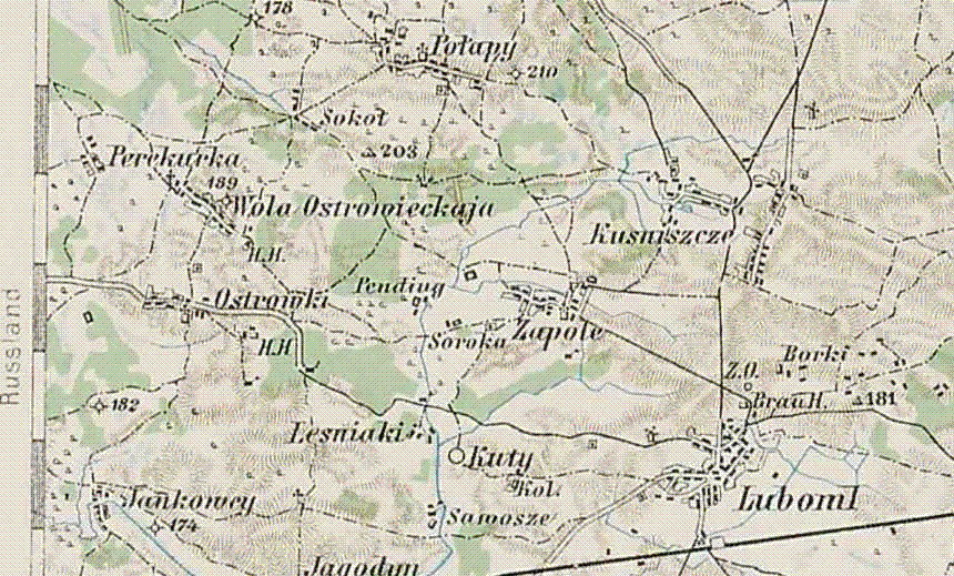 The area around Wólka Ostrowiecka on a military Austrian map